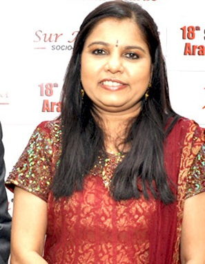 18th Sur Aradhana Awards held at Shri Fort Auditorium